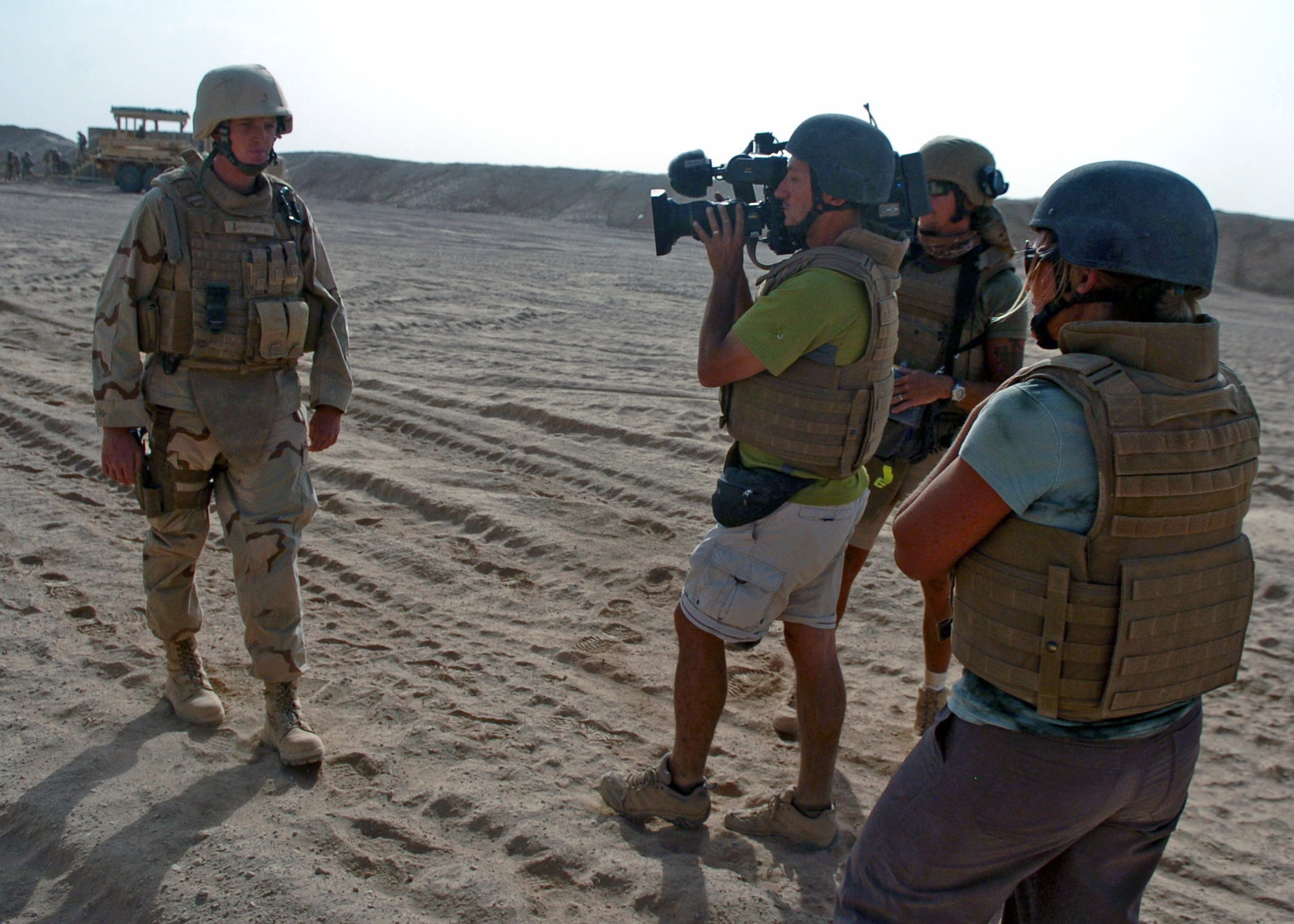 Helmand Province, Afghanistan (September 21, 2009) Camp Leatherneck Expansion Project Officer Ensign Eric Julius, assigned to Naval Mobile Construction Battalion (NMCB) 74, is interviewed by National Geographic Explorer for a video documentary of Camp Leatherneck. NMCB-74 is deployed to Afghanistan supporting NATO's International Security Assistance Force and U.S. Forces-Afghanistan. (U.S. Navy photo by Mass Communication Specialist 2nd Class Michael Lindsey/Released)